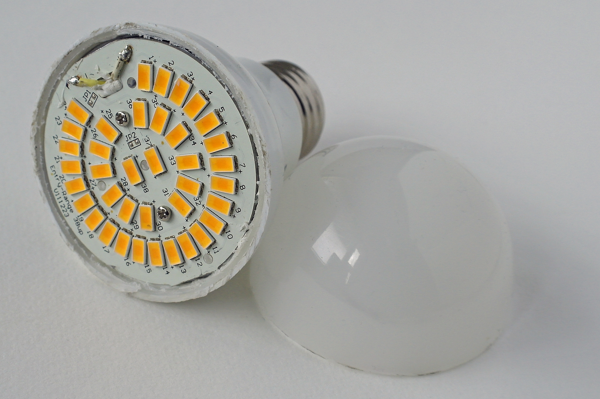 LED light with removed cap to see the LEDs inside the bulb